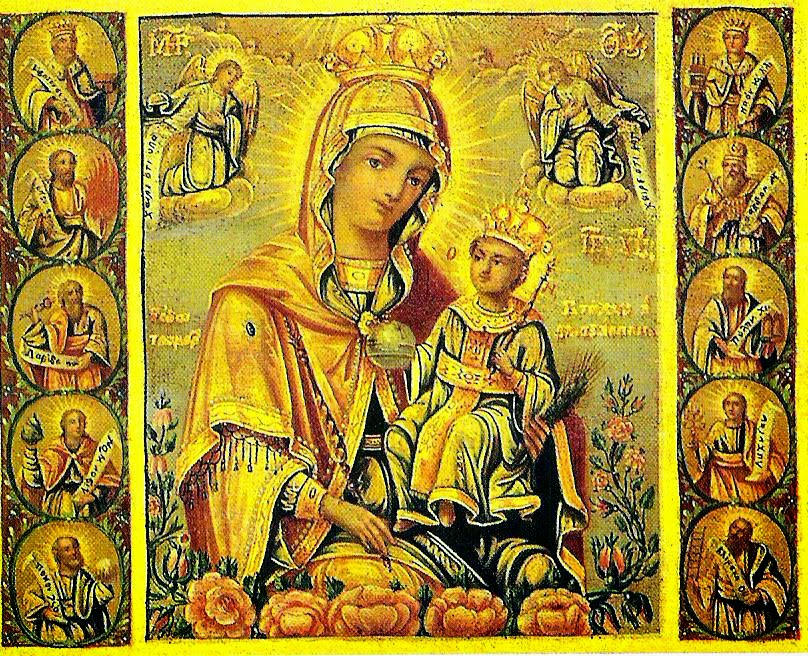 SMary_Rose_Icon from Pisoderi_Church